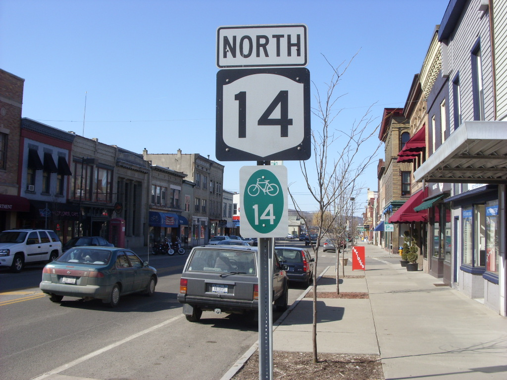 A view of the street-scape along New York State Route 14 northbound in Watkins Glen.